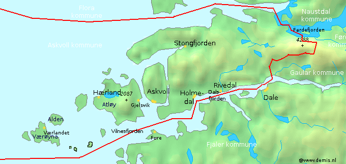 Map of Askvoll muncipality, Sogn og Fjordane, Norway.